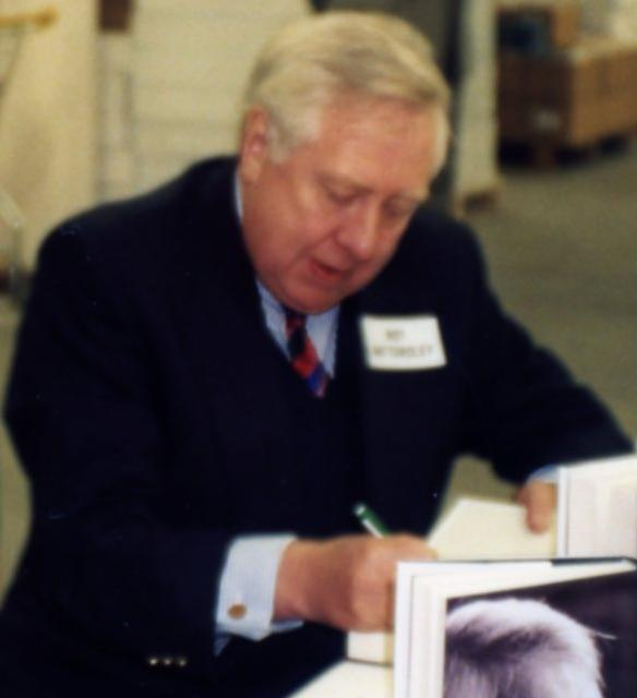 Roy Hattersley MP.